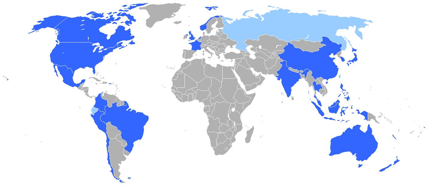 RIMPAC Participants